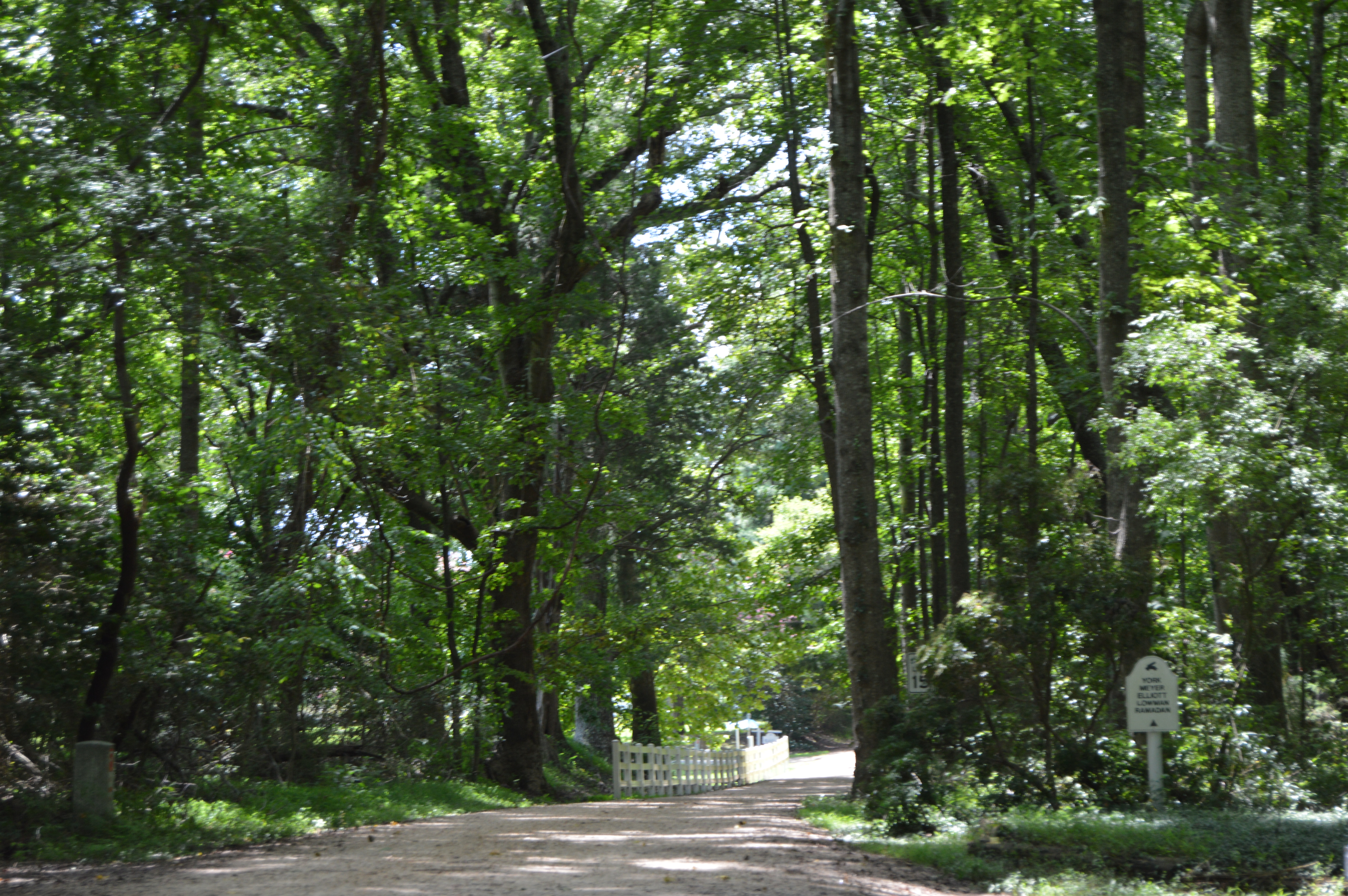 Entrance to the Pop Castle estate, located off Crab Point Road just south of Irvington in Lancaster County, Virginia, United States. The property is listed on the National Register of Historic Places.